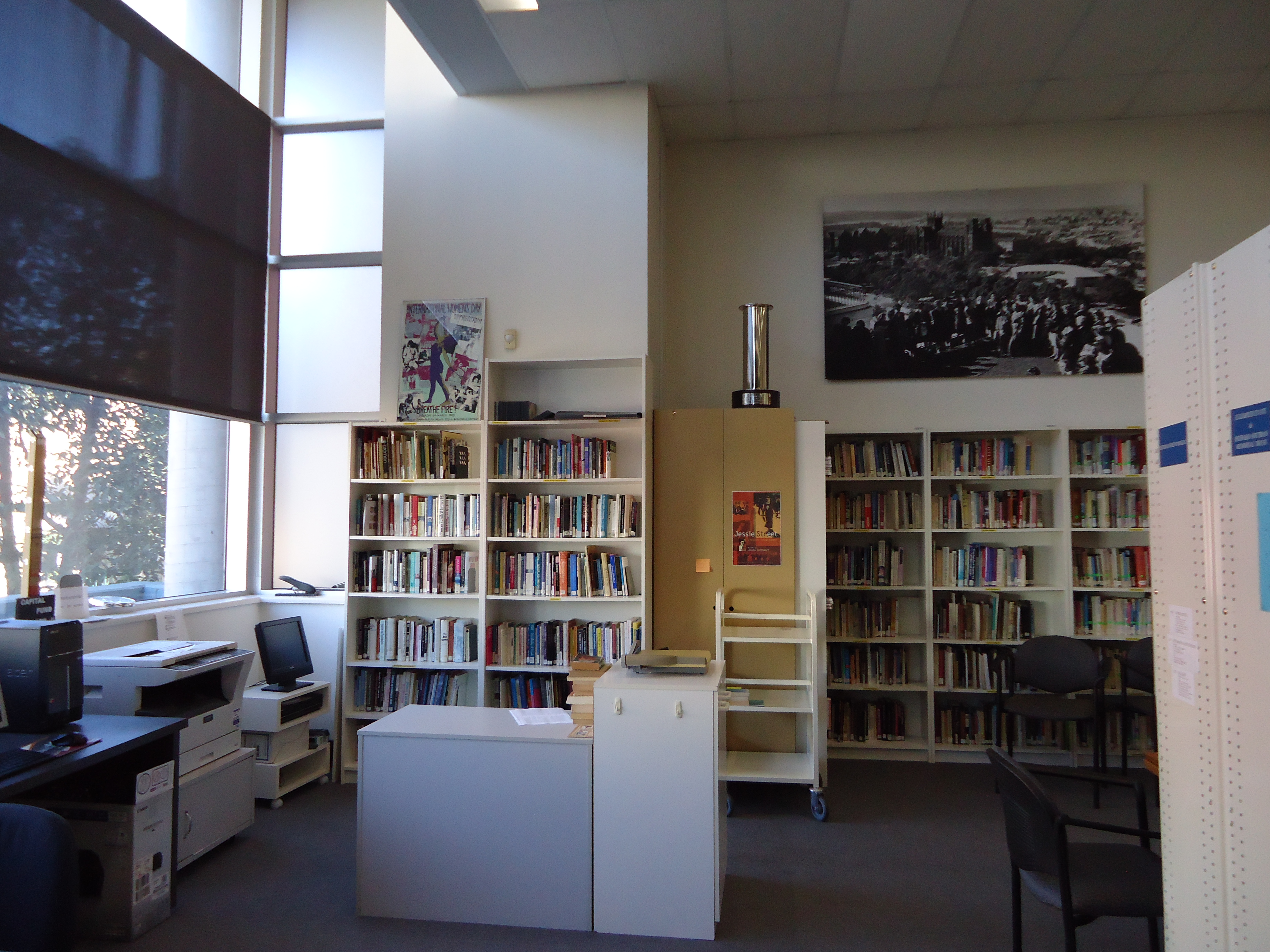 Interior view of the Jessie Street National Women's Library in Ultimo, NSW (looking from rear towards the front)